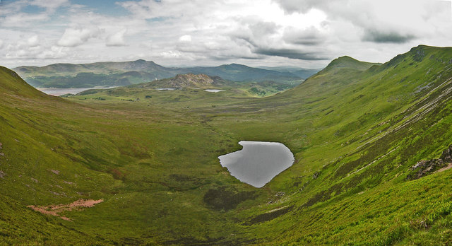 View over Llyn Cyri with Llynnau Cregennen & the Afon Mawddach in the distance